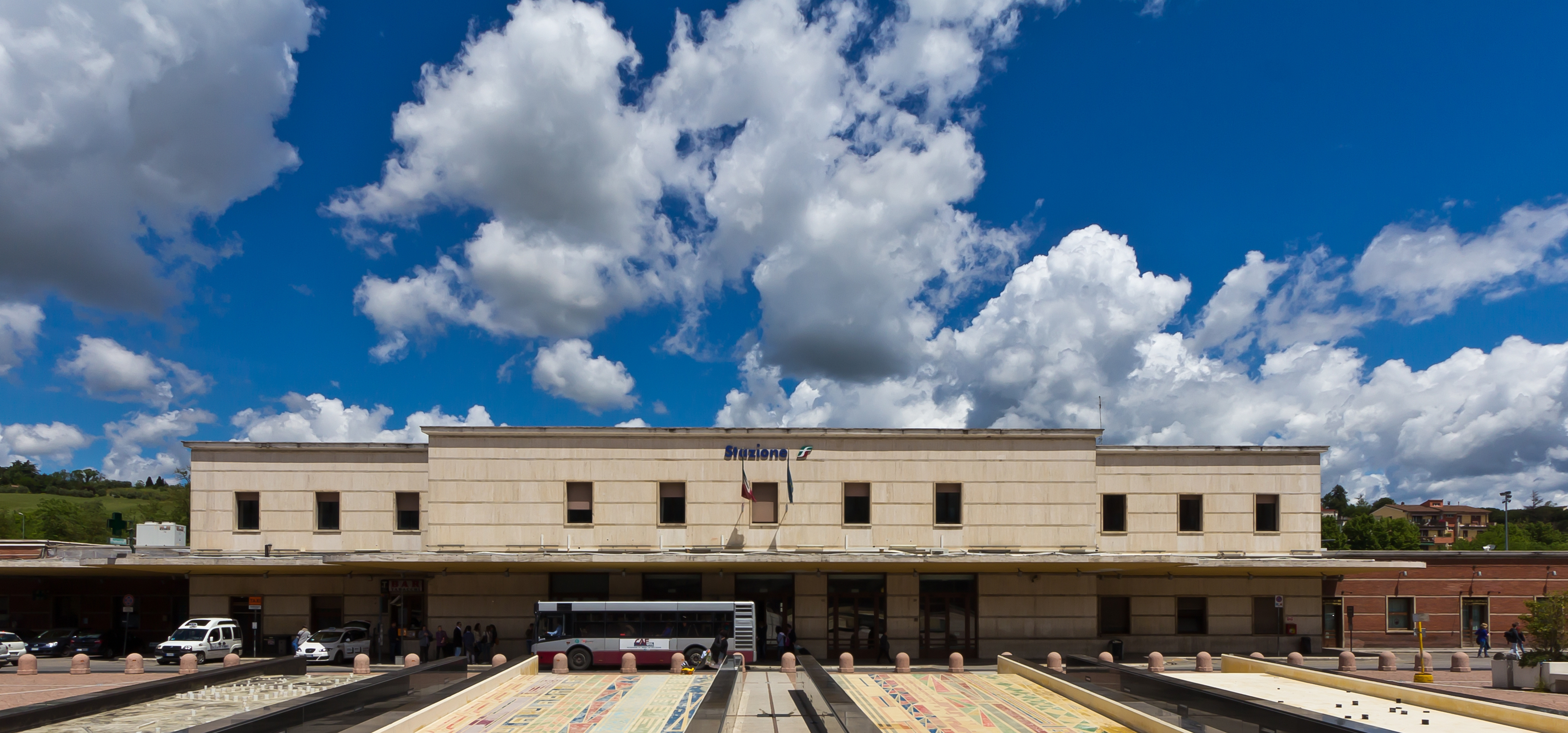 Train station of Siena, Tuscany, Italy